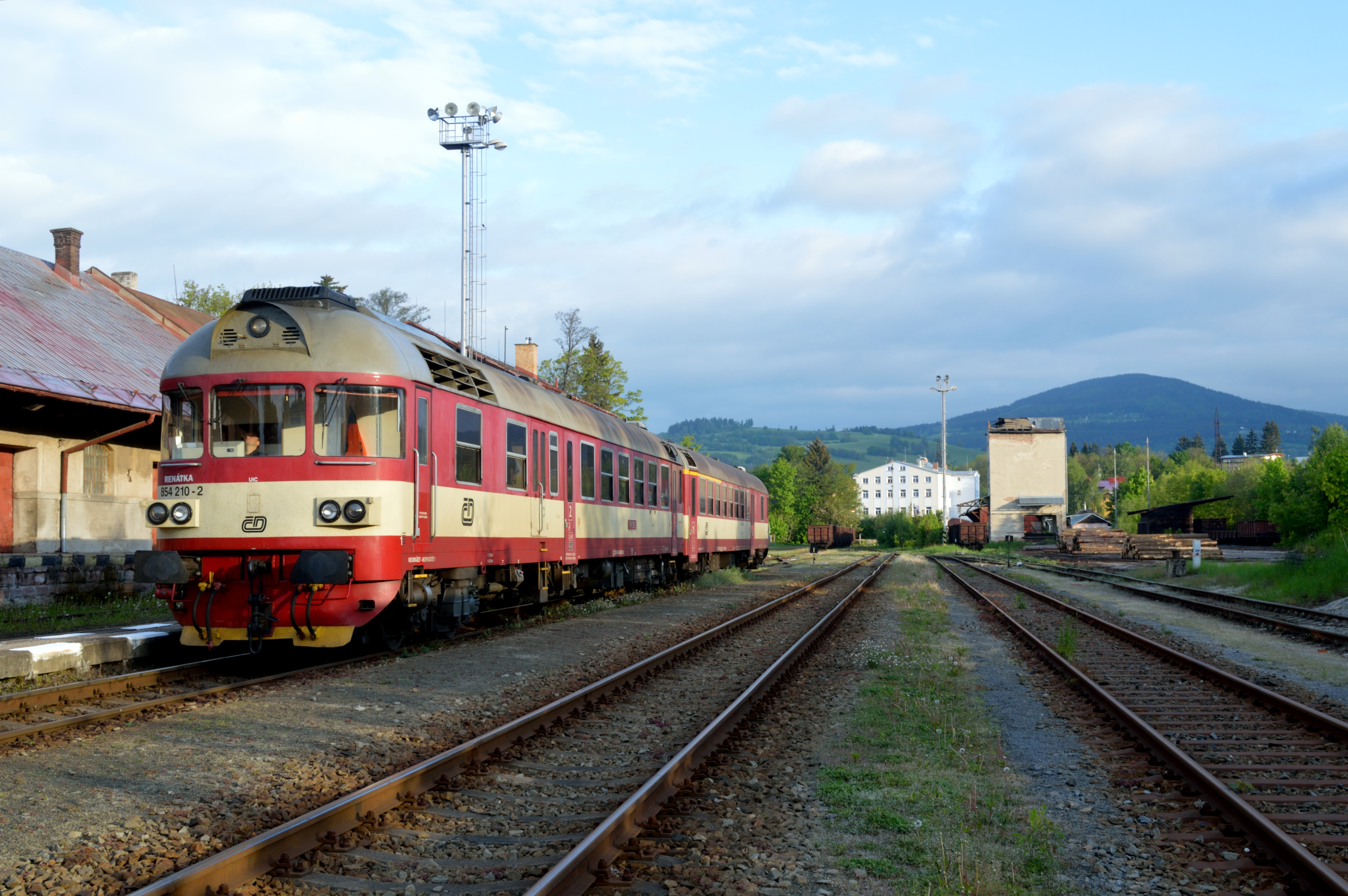 Having spent the night here in the town of Vrchlabí I was able to capture photos of trains both in the evening and morning. With the light conditions being a lot better, I've posted one taken at 06:30 prior to the departure of train Os5735, 06:37 Vrchlabí to Trutnov hl.n. Soon after the photo was taken, a class 810 coupled up, presumably to balance the workings on this short 7km branch that joins up at Kunčice nad Labem with line 040.